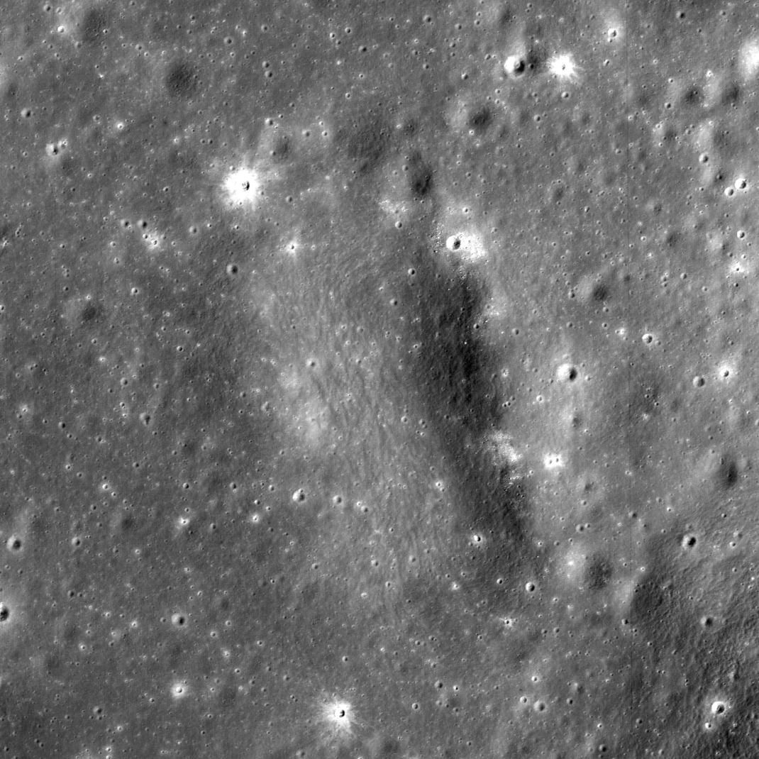 Small (1.1×0.7 km) crater Ango on the Moon, on the border of Mare Imbrium and Oceanus Procellarum. Centered at 20.47°N, 327.66°E (according to JMARS). Photo by Lunar Reconnaissance Orbiter, made with Narrow Angle Camera 29 October 2012 from altitude 130 km. Sun elevation is 43.7°. Width of the photo is 2.0 km, north is up.